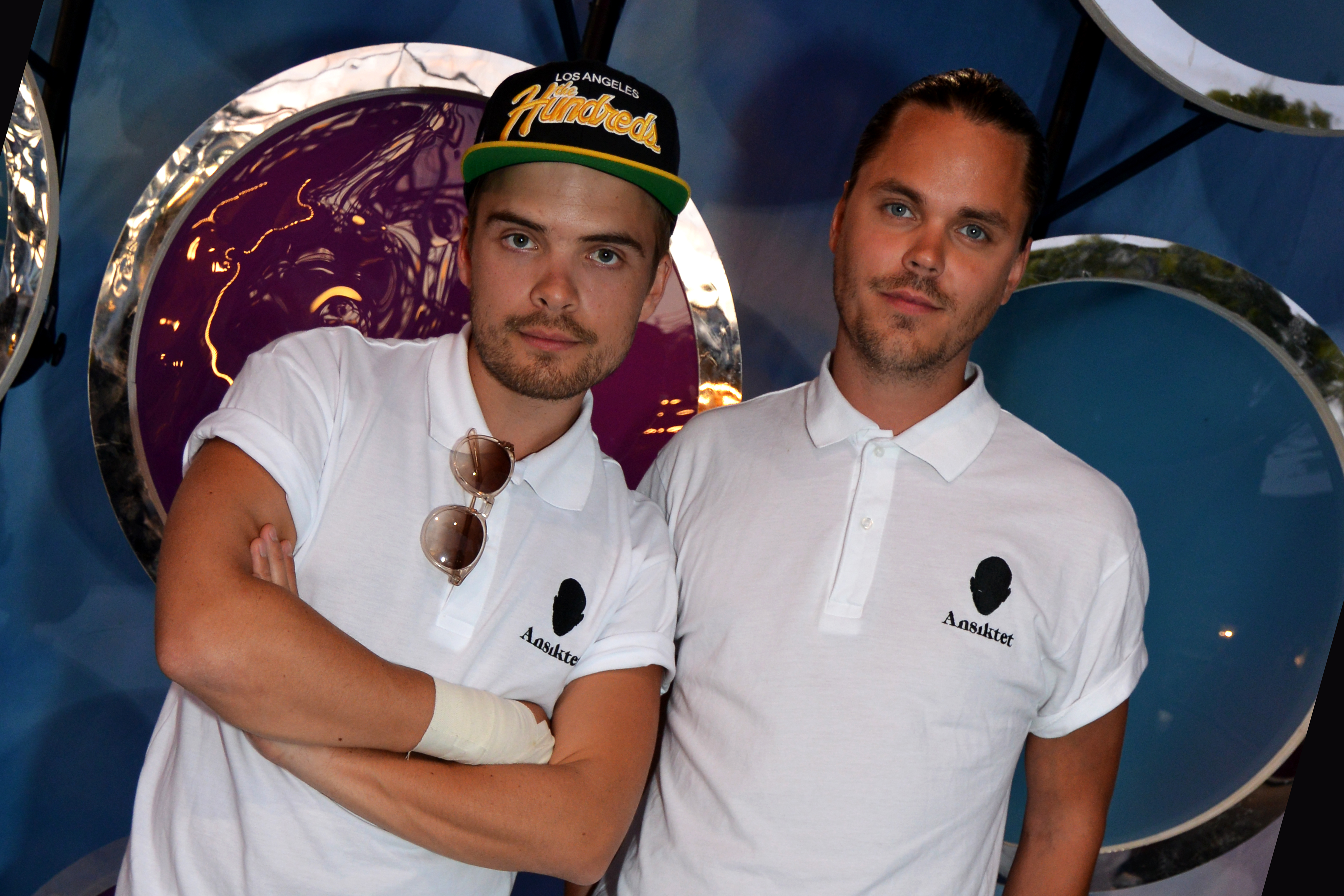 Ansiktet guest at Sommarkrysset 2013 on Gröna Lund in Stockholm (Sweden)